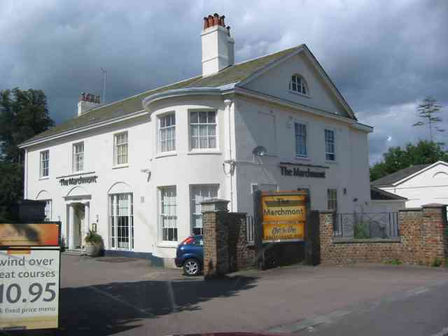 The Marchmont Piccotts End Hemel Hempstead. This pub is on the outskirts of Hemel